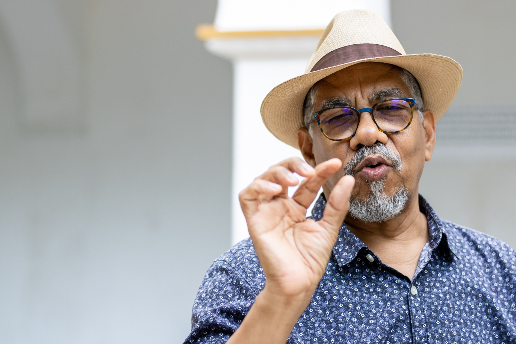 Rómulo Bustos. Foto, Alexander Urzola